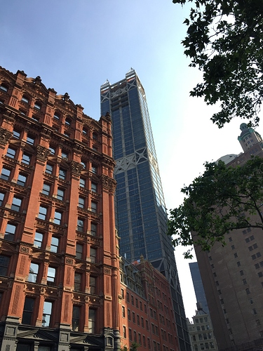 5 Beekman under construction, late May 2016.